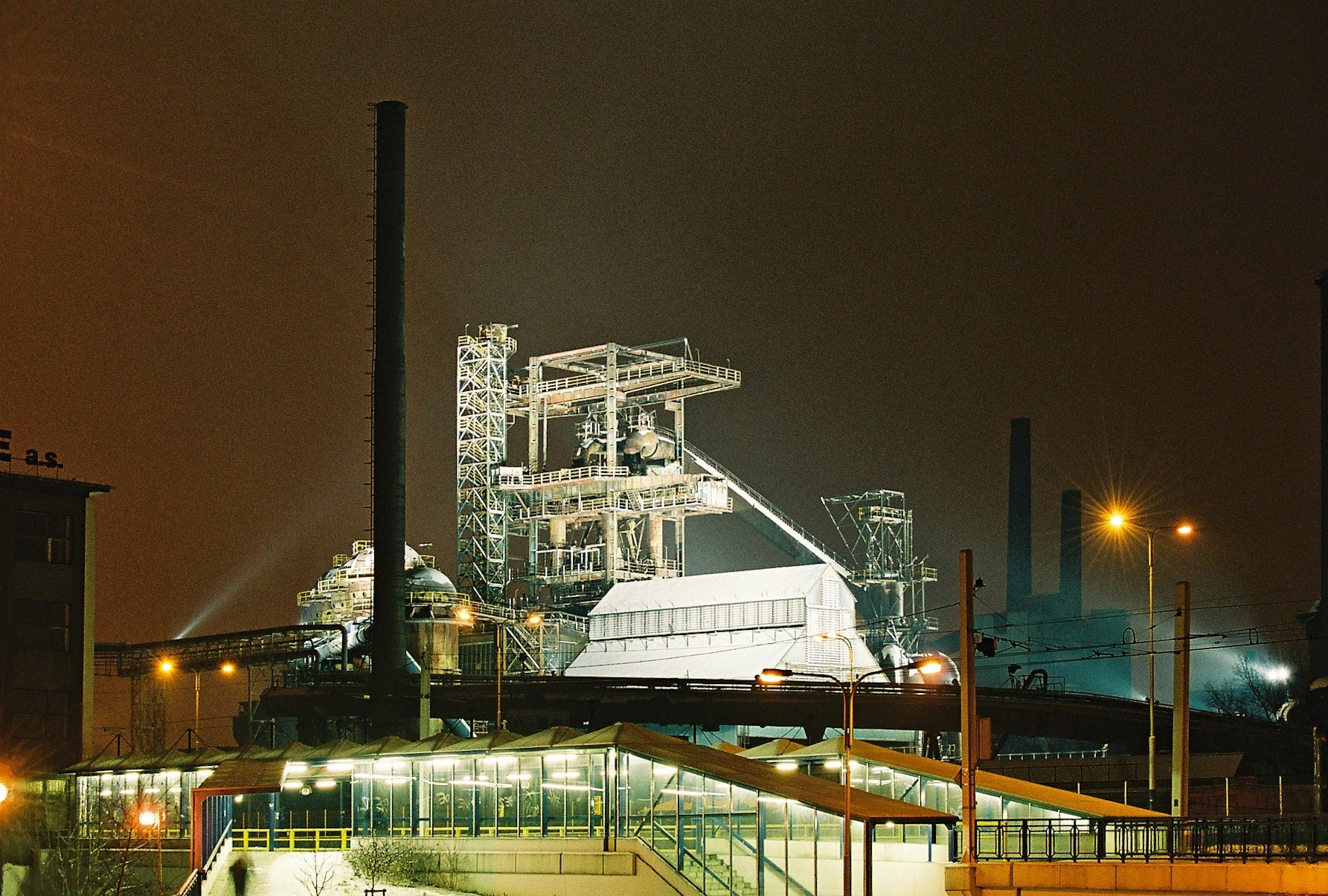 blast furnaces, with effect of "light pollution"